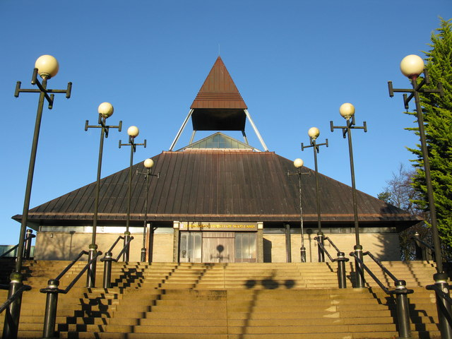 St Mungo's Church of Scotland